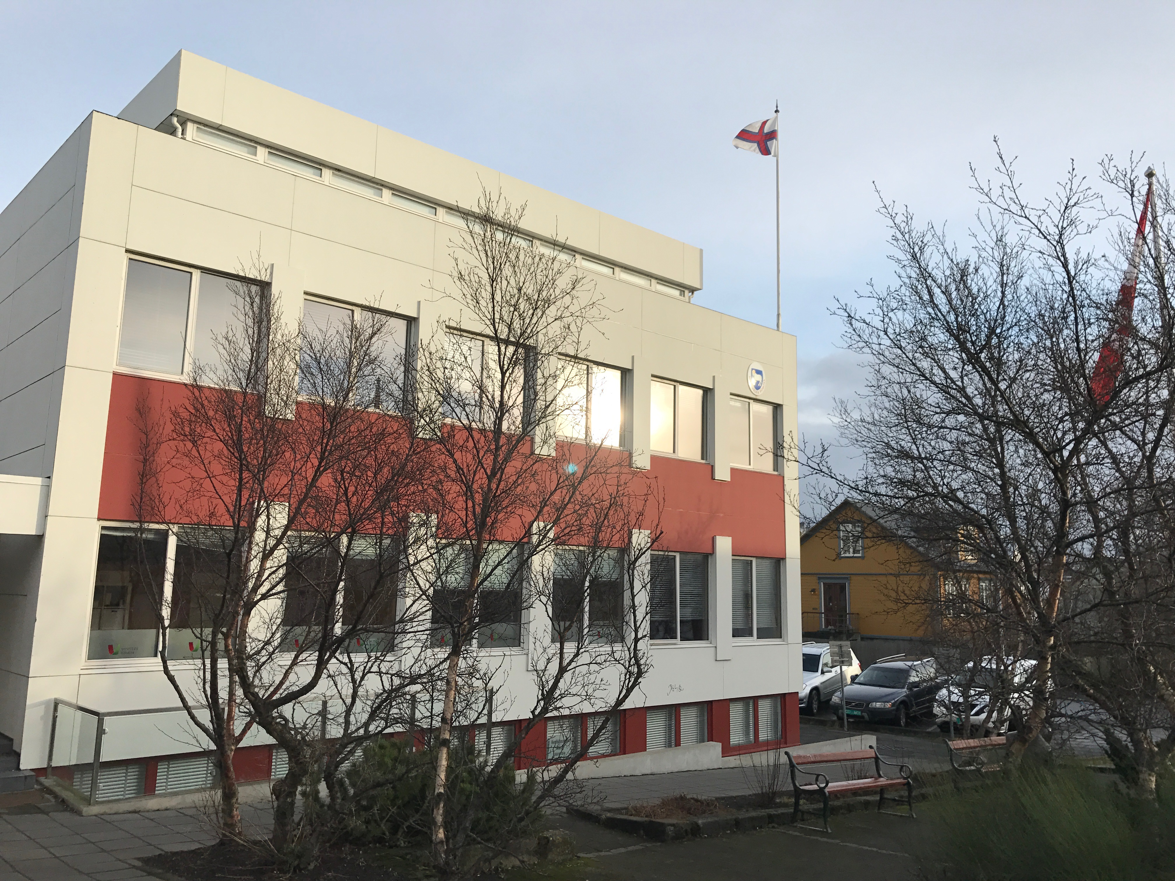 Embassy of Canada and Permanent Mission of the Faroe Islands in Reykjavik, Iceland